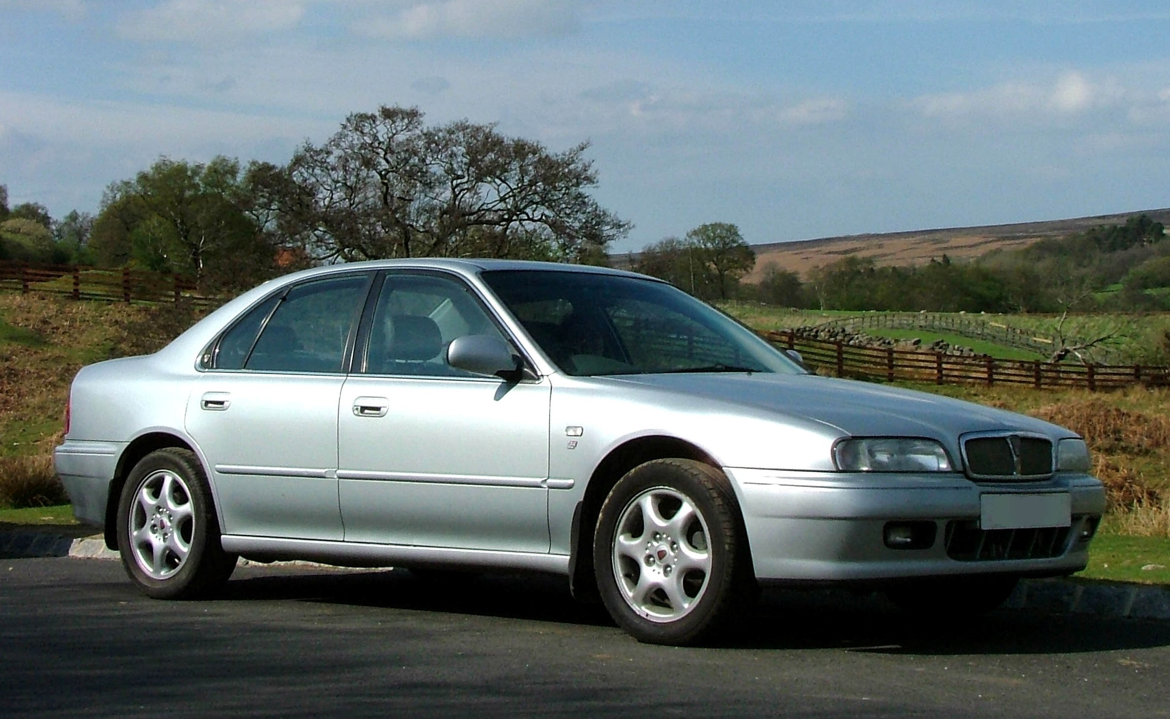 Photo of my own car on the North Yorkshire Moors